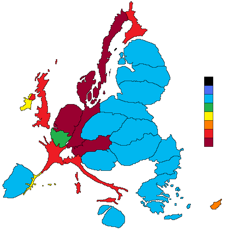 EU budget 2007-2013 per capita cartogram (Luxembourg not shown because figures are too large). Budget numbers gotten from this. 2007 population numbers gotten from this. See here for the calculations. Coloration Total budget expenditure in euros for the whole period 2007-2013 per capita (2007 population figures) are given below. Negative numbers indicate net contributors, positive numbers indicate net recipients. -5000 to -1000 euro per capita -1000 to -500 euro per capita -500 to 0 euro per capita 0 to 500 euro per capita 500 to 1000 euro per capita 1000 to 5000 euro per capita 5000 to 10000 euro per capita 10000 euro plus per capita n/a Belgium and Luxembourg "...Some expenditure allocated to Belgium and Luxembourg might (sic) be inflated due to the large number of multinational consultancies or ad-hoc companies based in these 2 Member States. EU expenditure to these companies might actually be paid ultimately to parent companies or subsidiaries located outside these 2 Member States. It is not always possible to identify the location of the final beneficiary of such expenditure (notably under 'Internal policies' over 2000-2006 and under headings 1.1 & 3 since 2007)..."